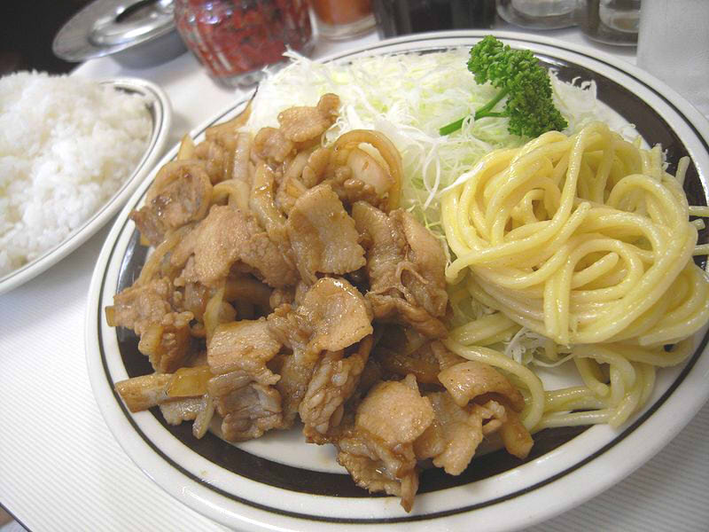 kobakou ate a ginger friend pork at the Kitchen Nankai in Sumida Ward, Tōkyō Metropolis on August 17, 2011.